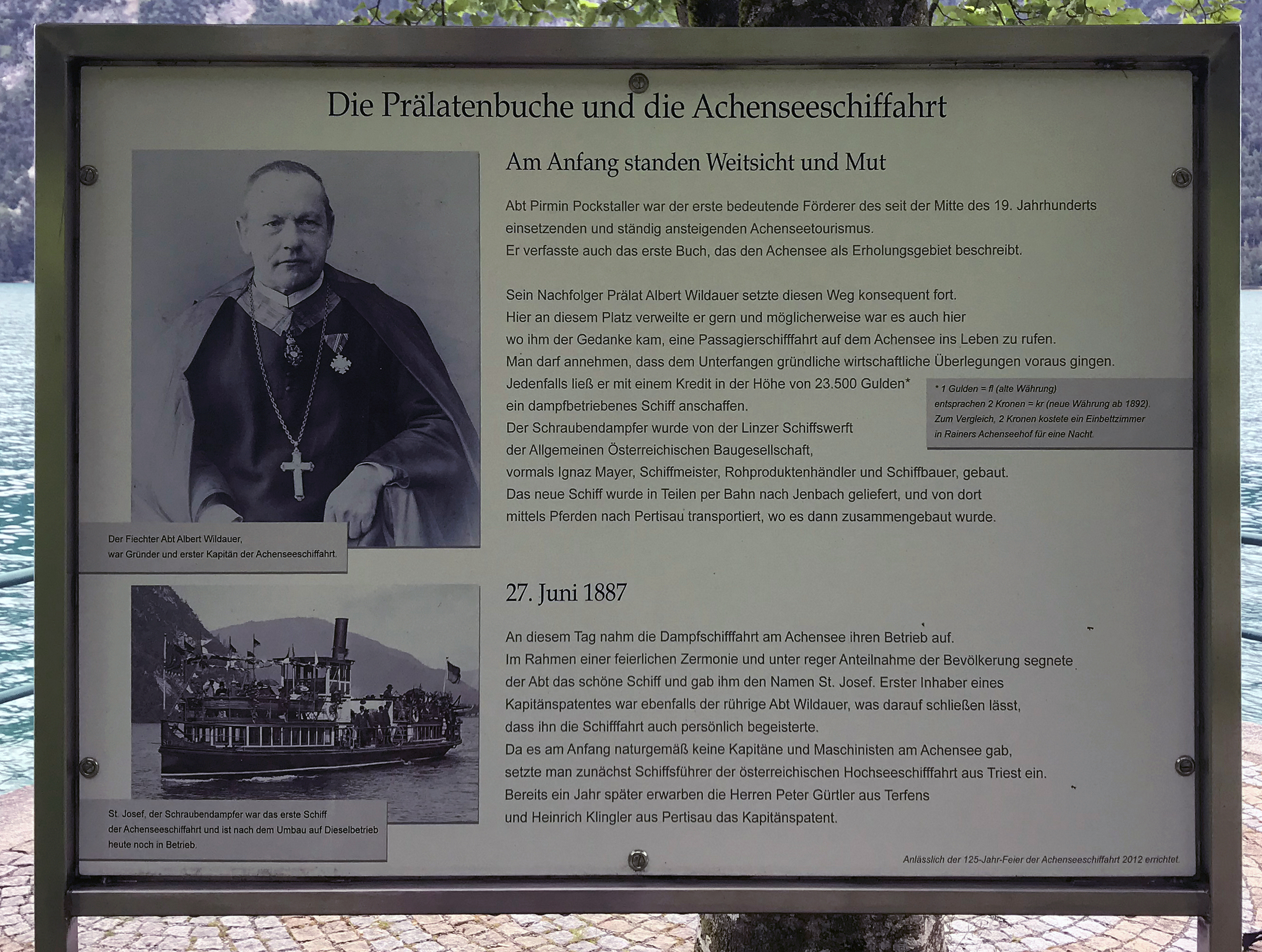 Memorial plaque, Albert Wildauer, Achensee, Pertisau, Österreich